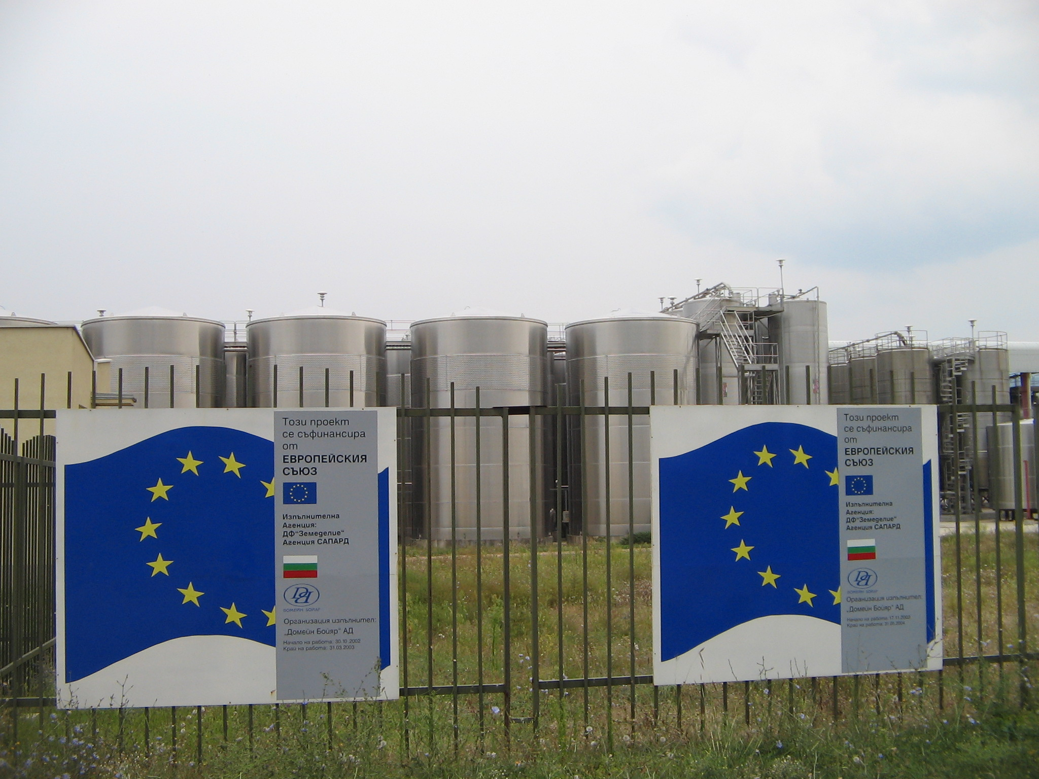 The sign in Bulgarian says: This project is cofinanced by the European Union.